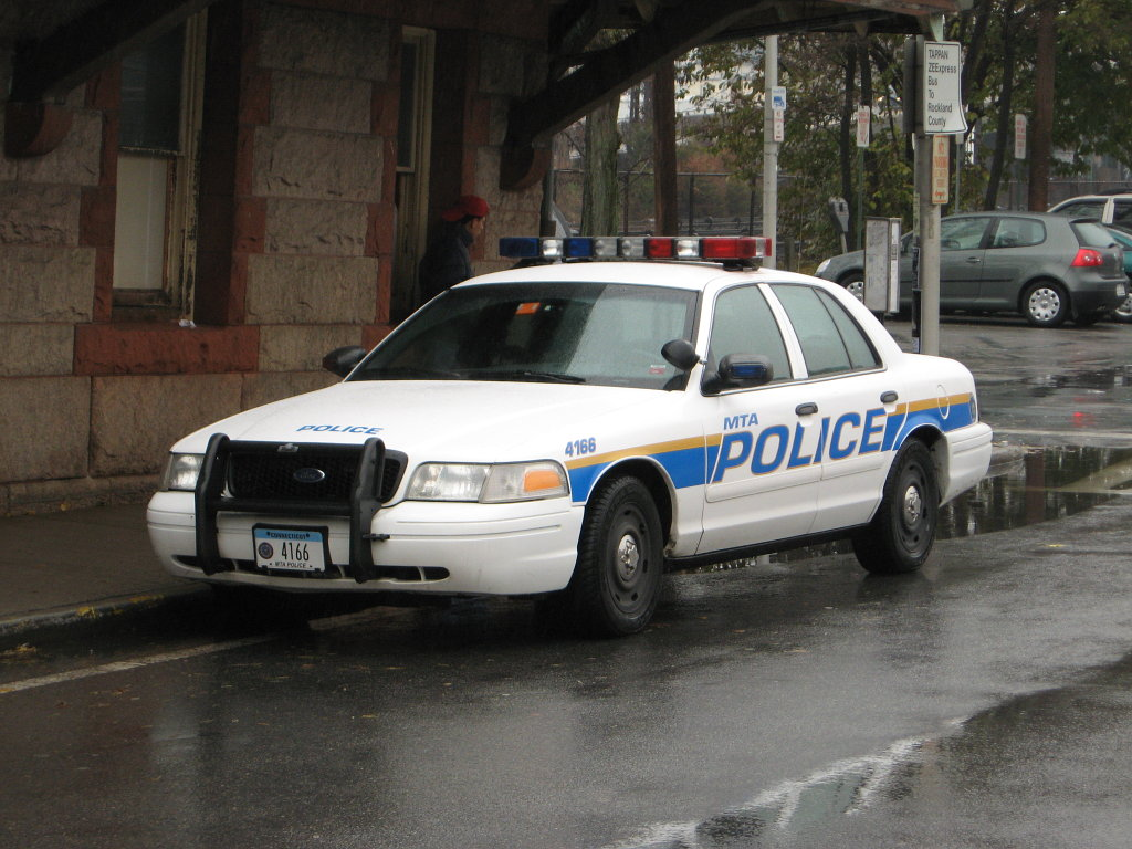 MTA Police car #4166 at Tarrytown (Metro-North station)